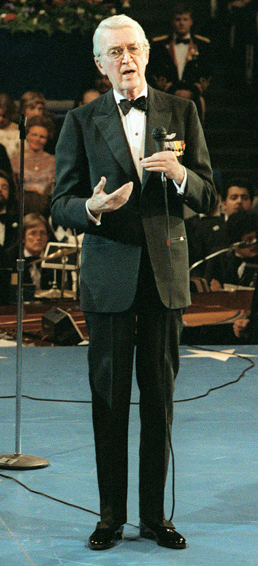 Retired AGEN Omar Bradley is brought onto the ballroom floor at the Kennedy Center by his aide as actor James Stewart speaks to the audience at a celebration on Inauguration Day in Washington D.C., USA.